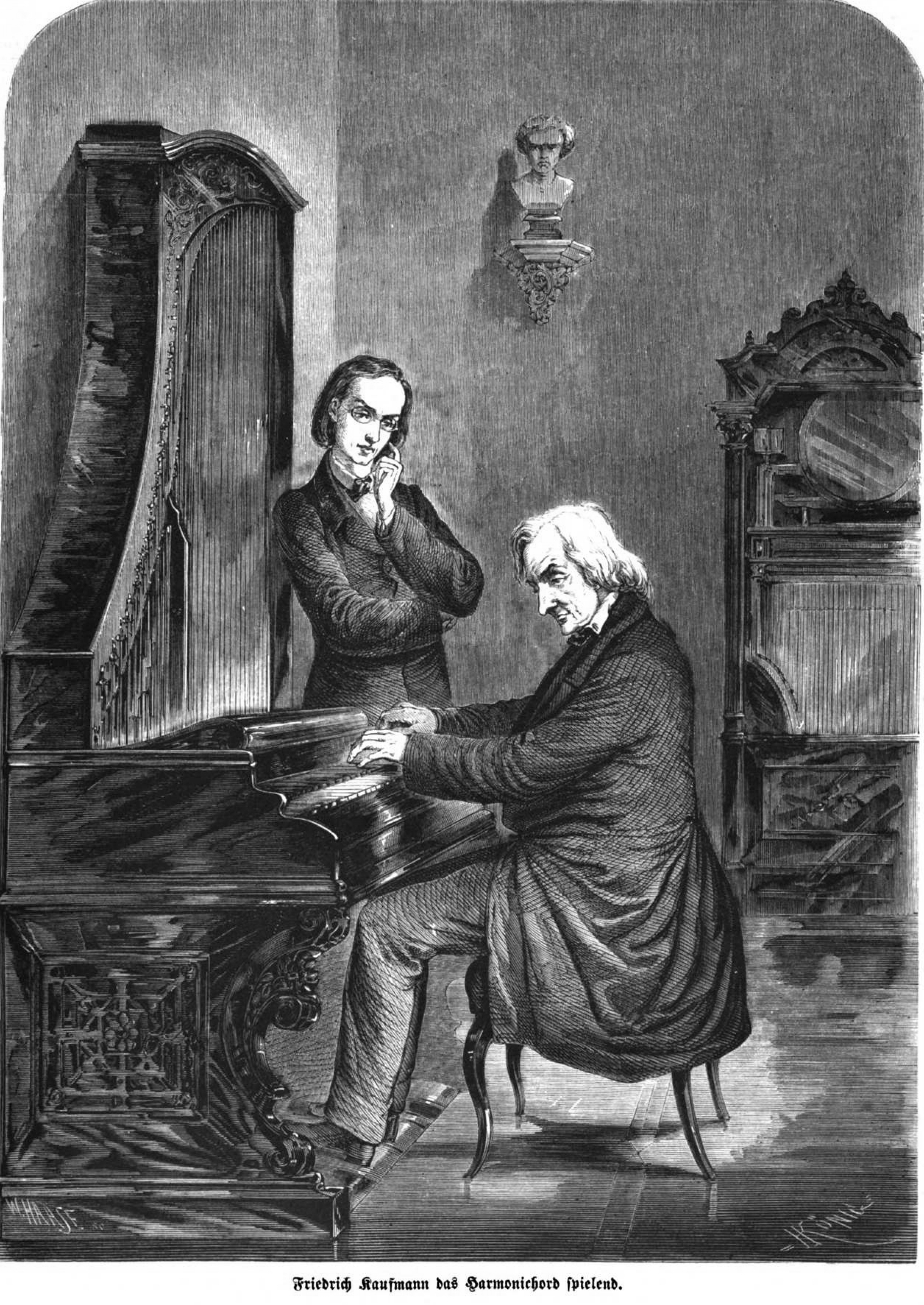 caption: "Friedrich Kaufmann das Harmonichord spielend."